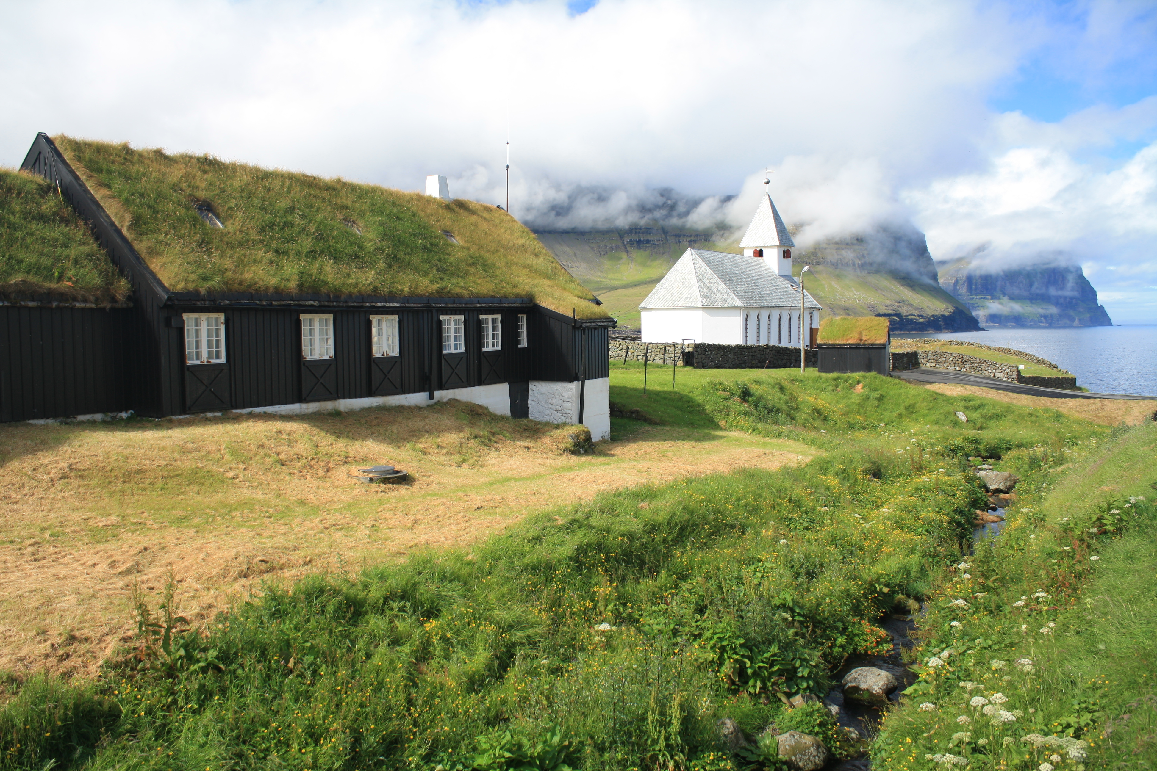 Church of Viðareiði on Viðoy, Faroe Islands.